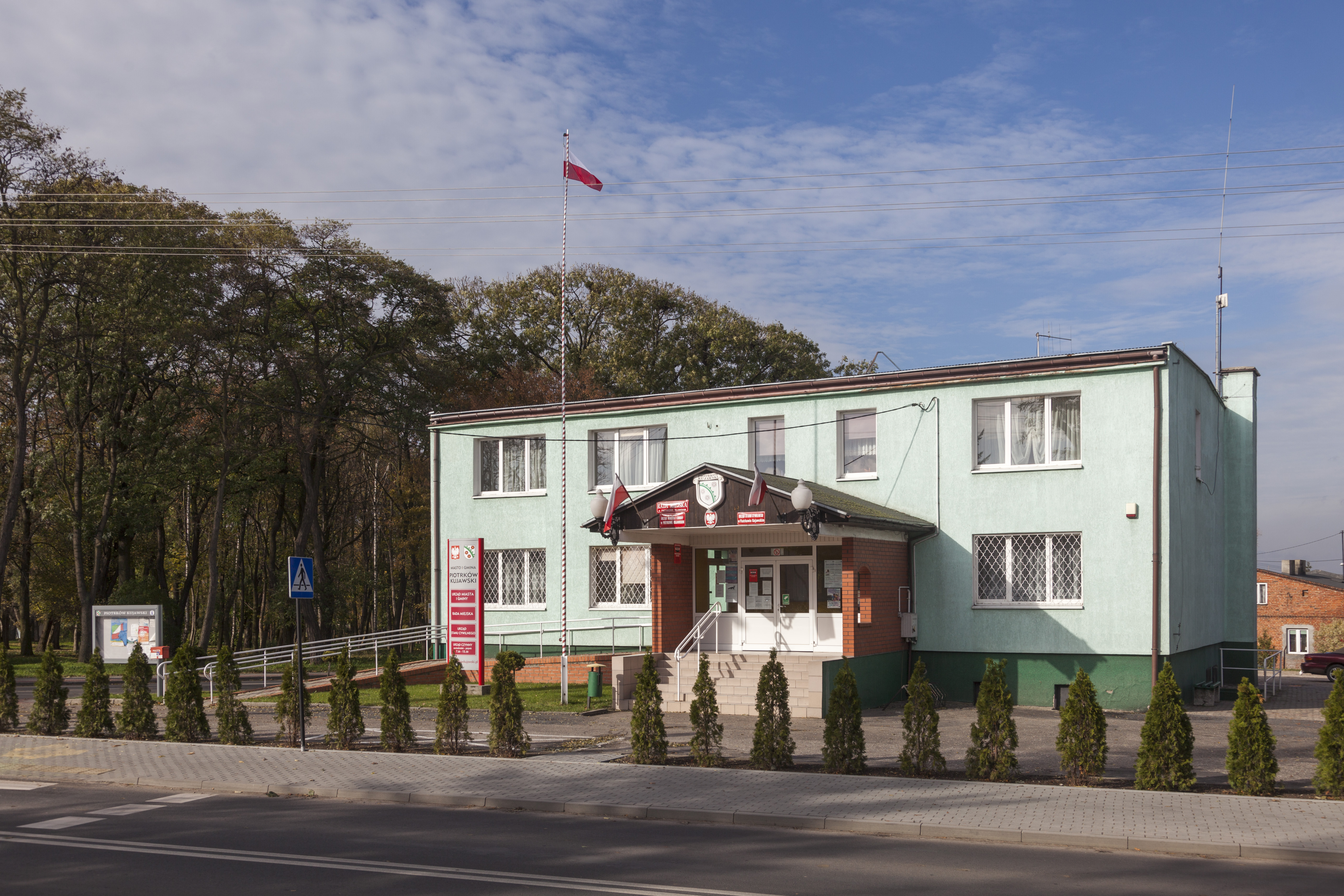 Municipal and community office in Piotrków Kujawski.